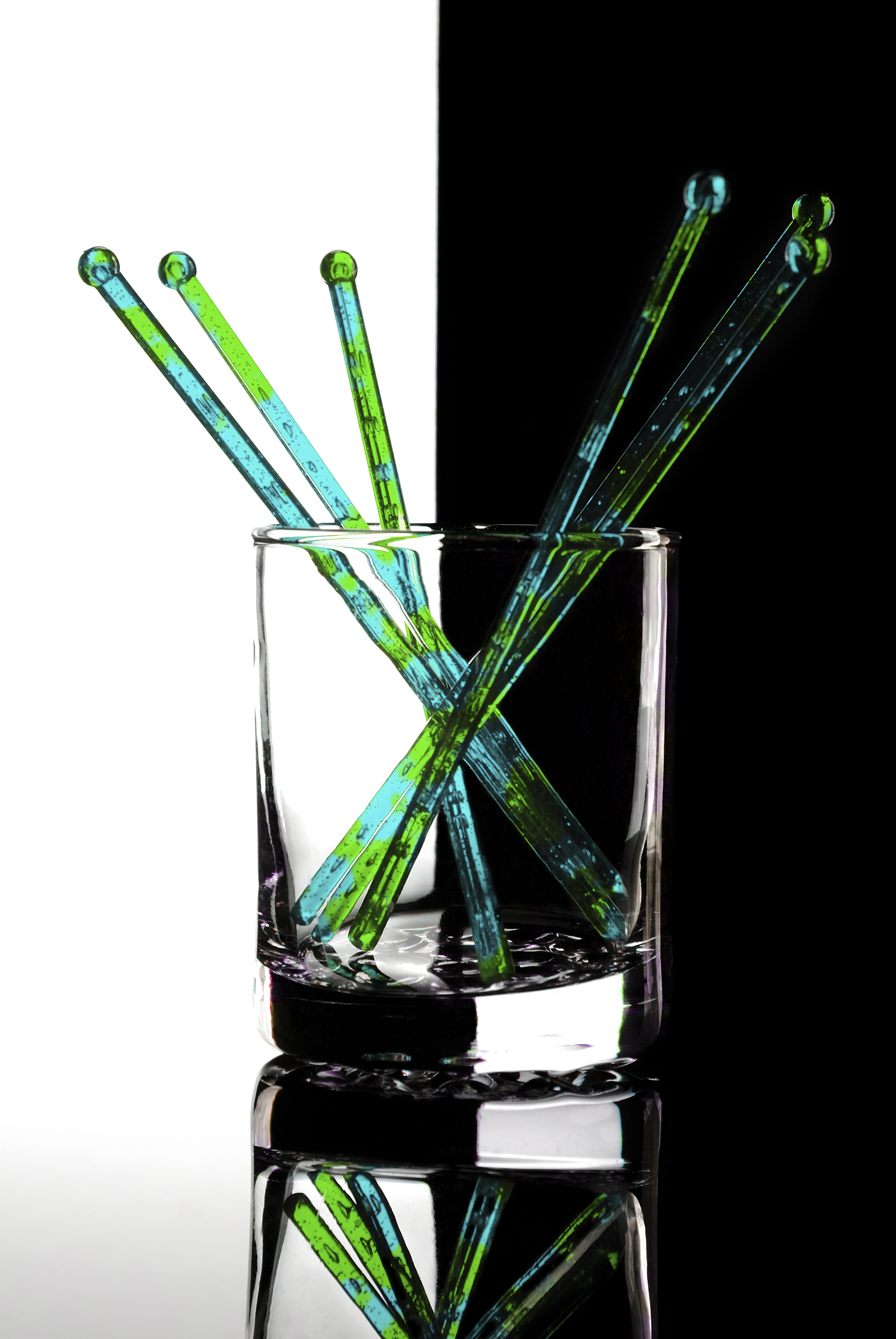 Strobist info: (also see graphic in comments) I basically split the dark- and bright-field lighting concepts in half. Two strobes under that table, one directed straight back and the other off to the right, hitting two pieces of white foam core wrapped around the table about 1 ft. away. The black background is a piece of black foam core sitting on top of the table. Also using black foam core as gobos to the left and right of the subject.